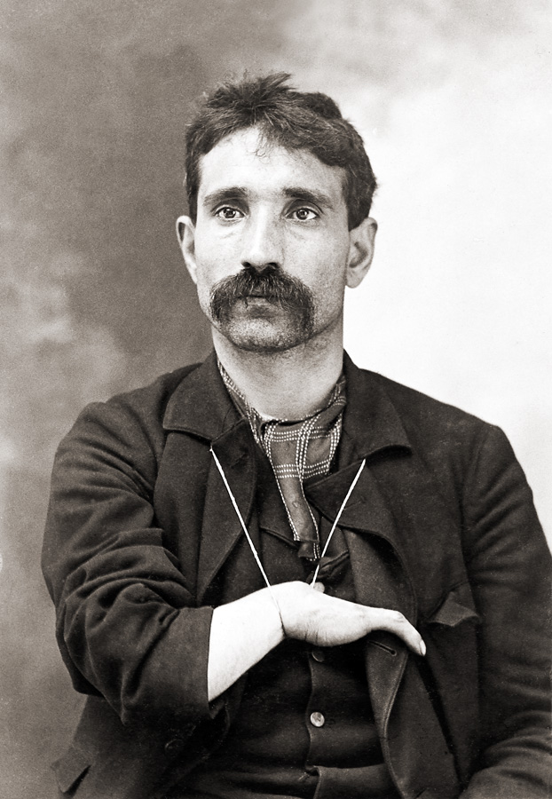 Photo of Giuseppe Morello.